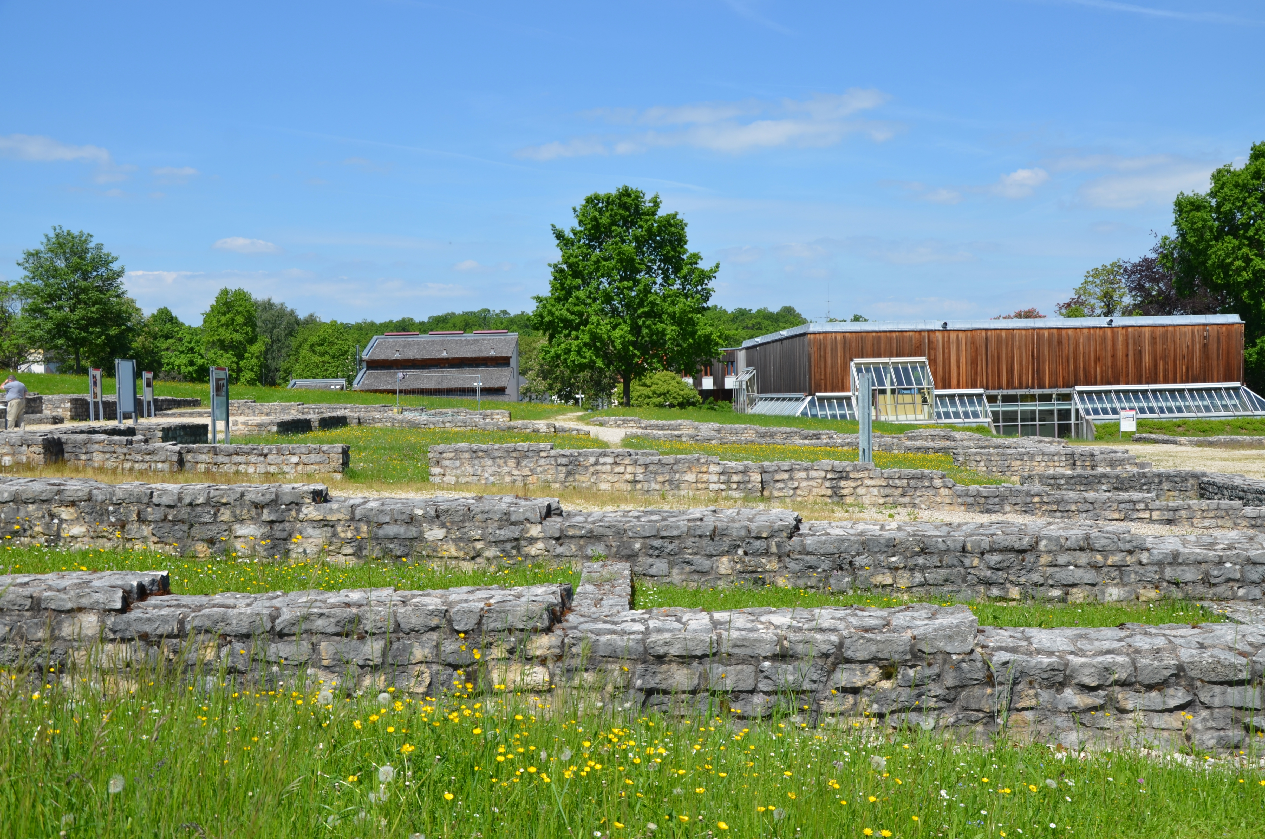 Kastell Aalen, the largest cavalry fort (castellum) along the limes occupied by the Ala II Flavia Miliaria Pia Fidelis, Raetian Limes, Germany